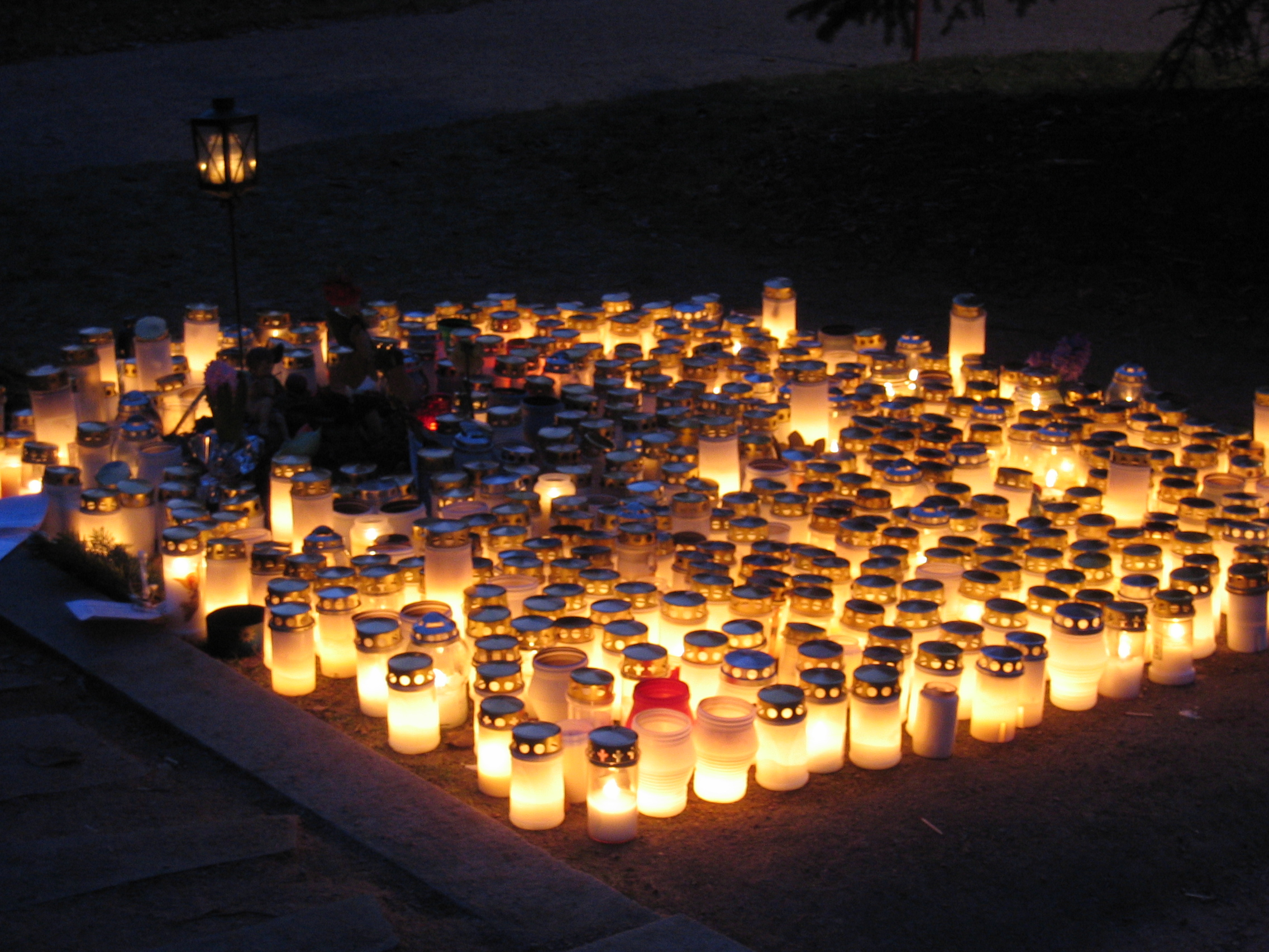 Finnish poet, singer-songwriter Juice Leskinen's Grave